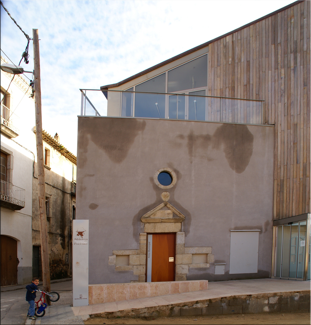 Calonge, Catalonia: Pere Caner Library